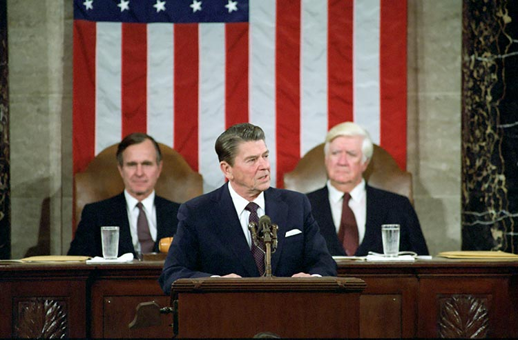 President Reagan addressing Joint Session of Congress on program for economic recovery.